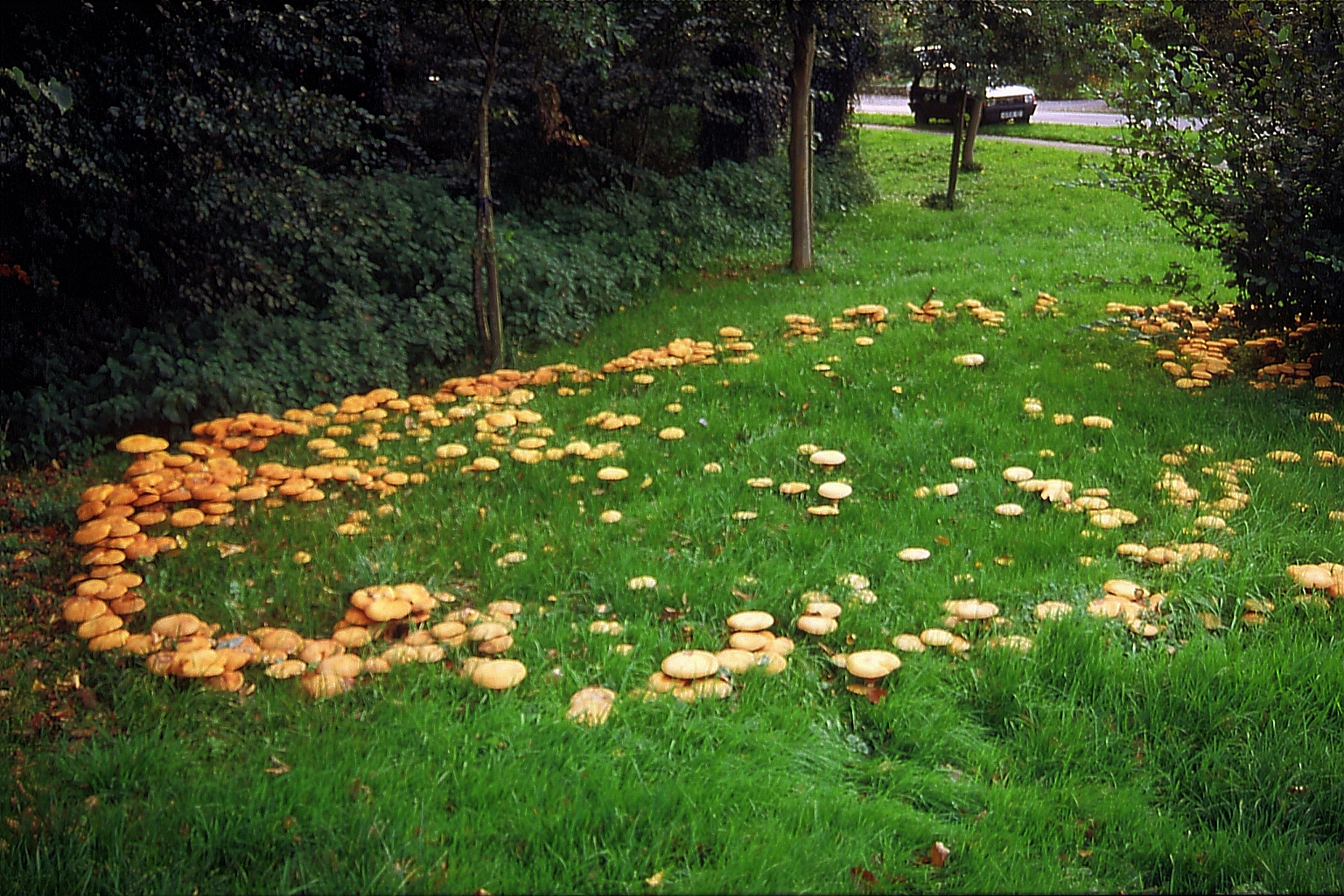 The making of this document was supported by the Community-Budget of Wikimedia Germany.